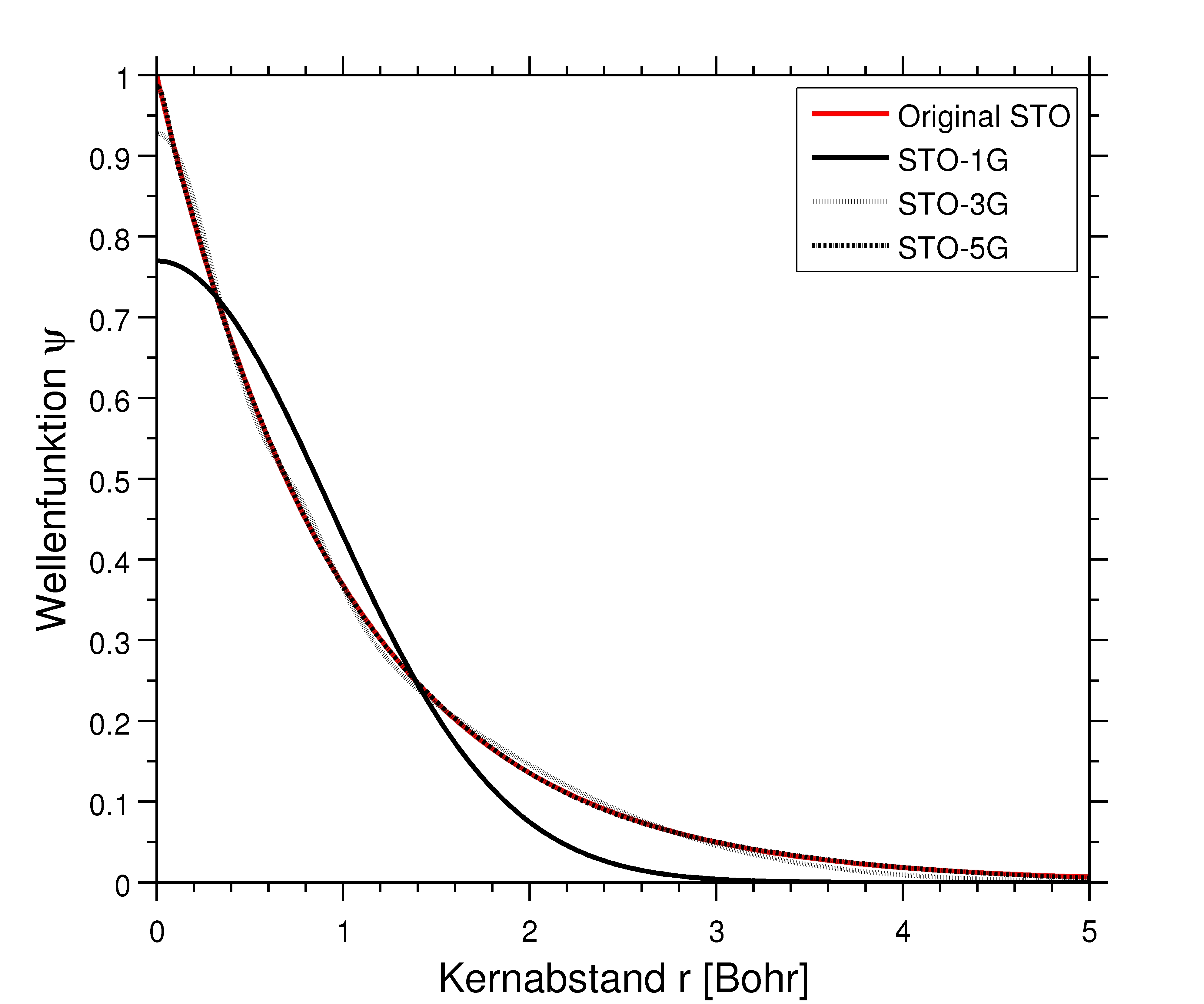 Comparison of different sto-ng and sto